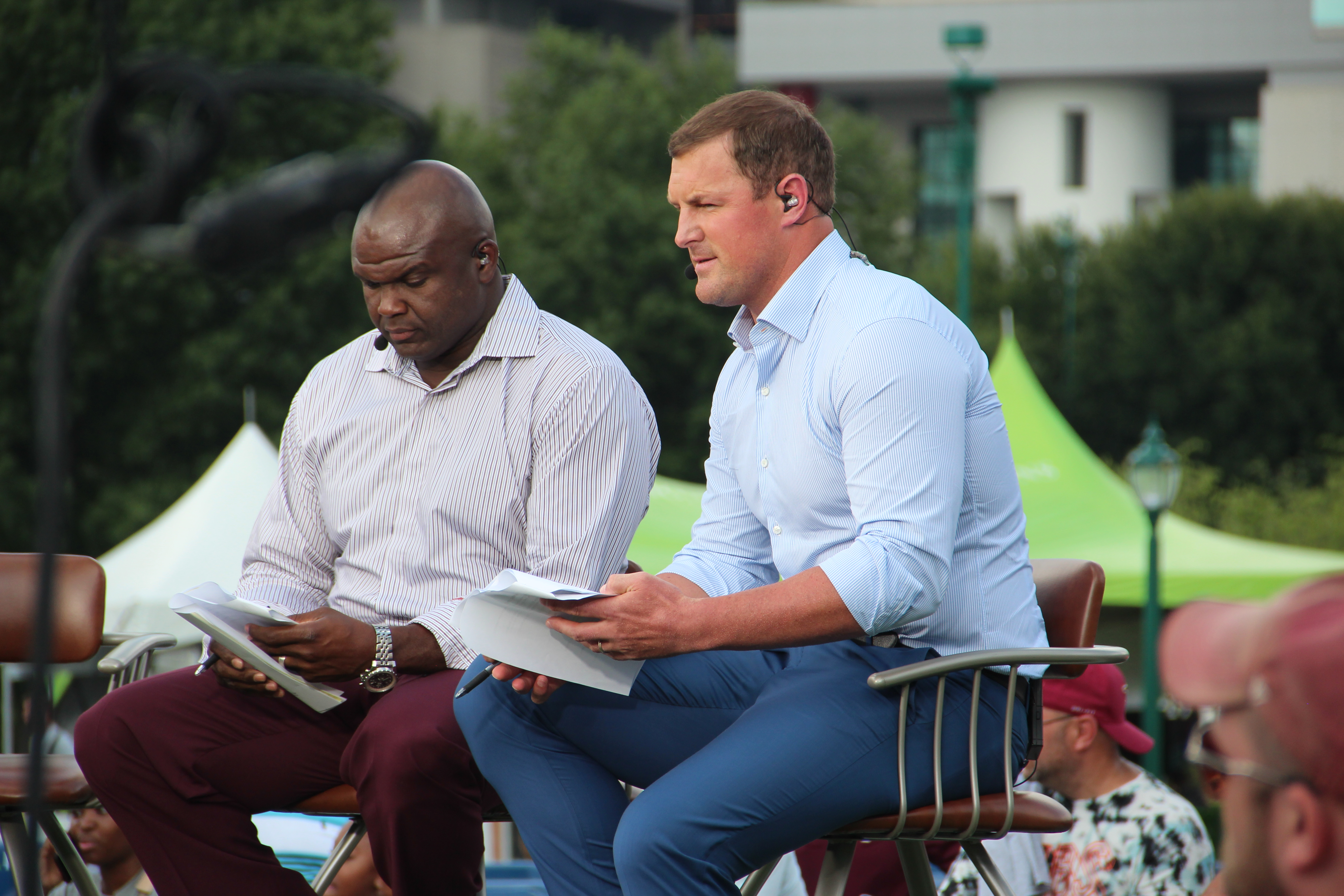 2018 SEC Summerfest